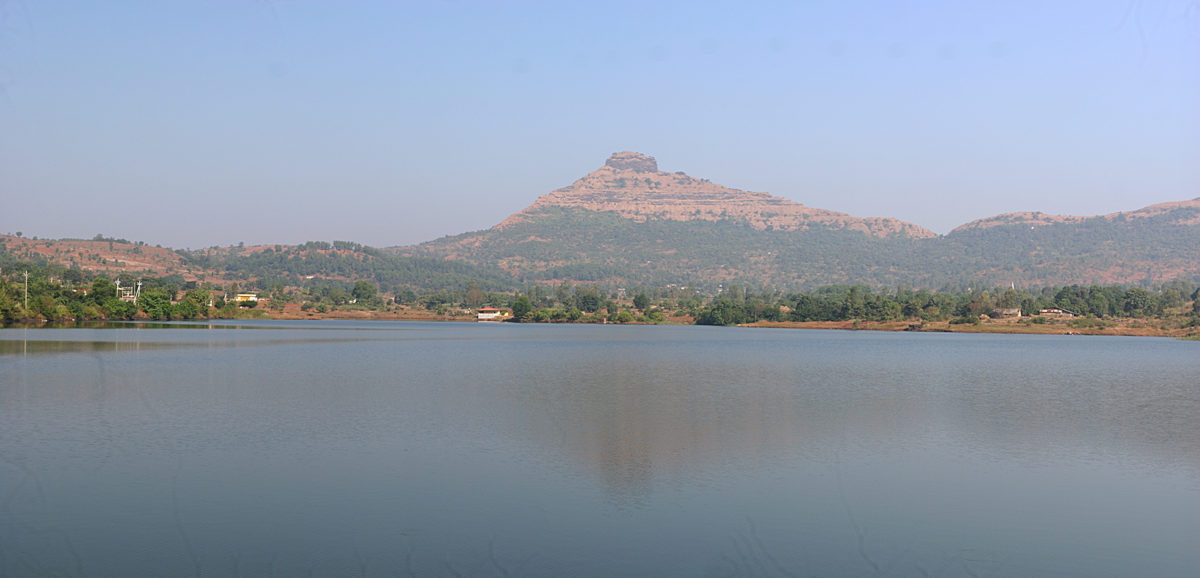 View of Tikona Fort from Hadashi Dam.